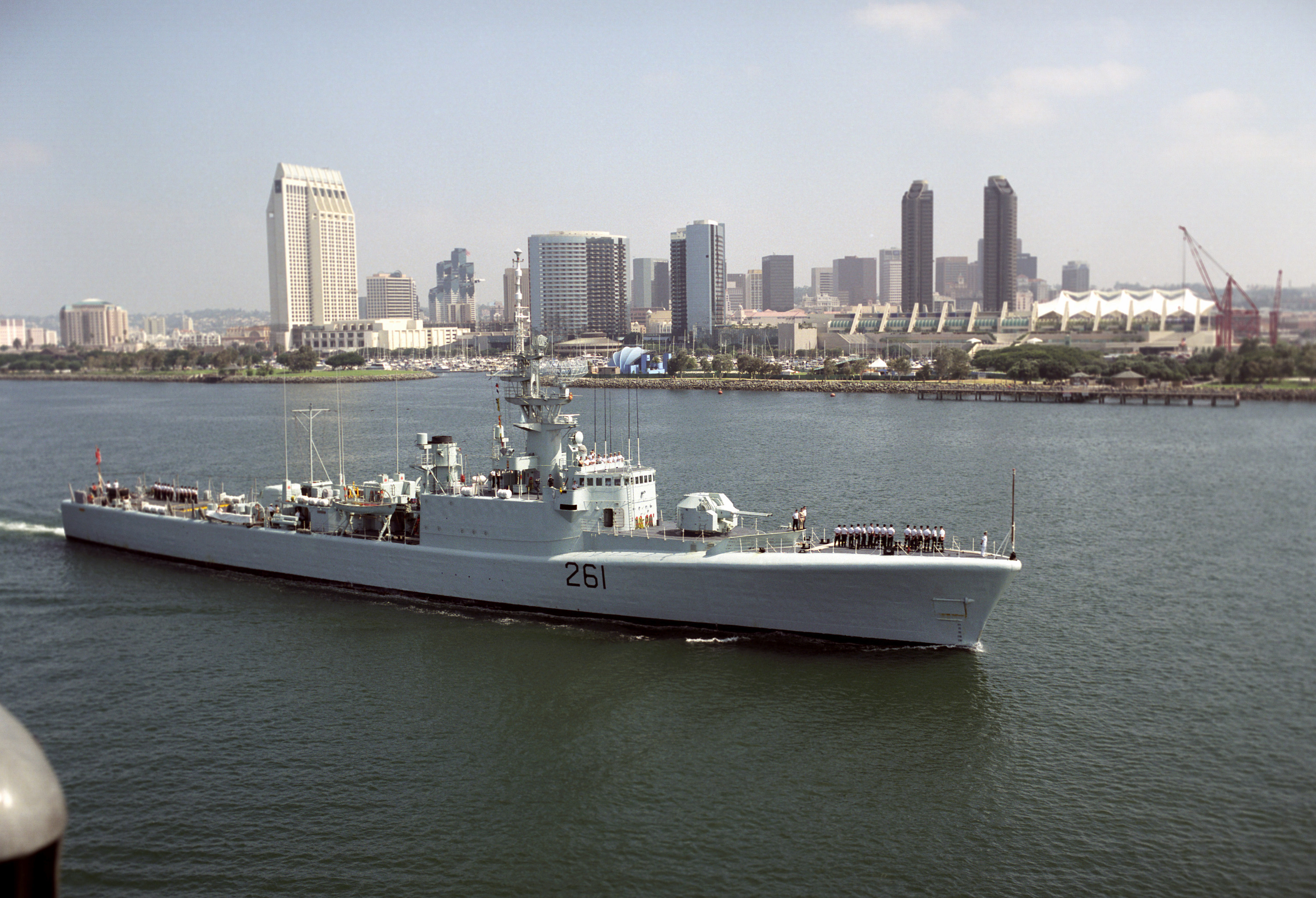 The Royal Canadian Navy Mackenzie-class destroyer escort, HMCS Mackenzie (DDE 261), as it sails past the San Diego Convention Center at San Diego, California (USA). The ship was participating in the exercise "RIMPAC '92".